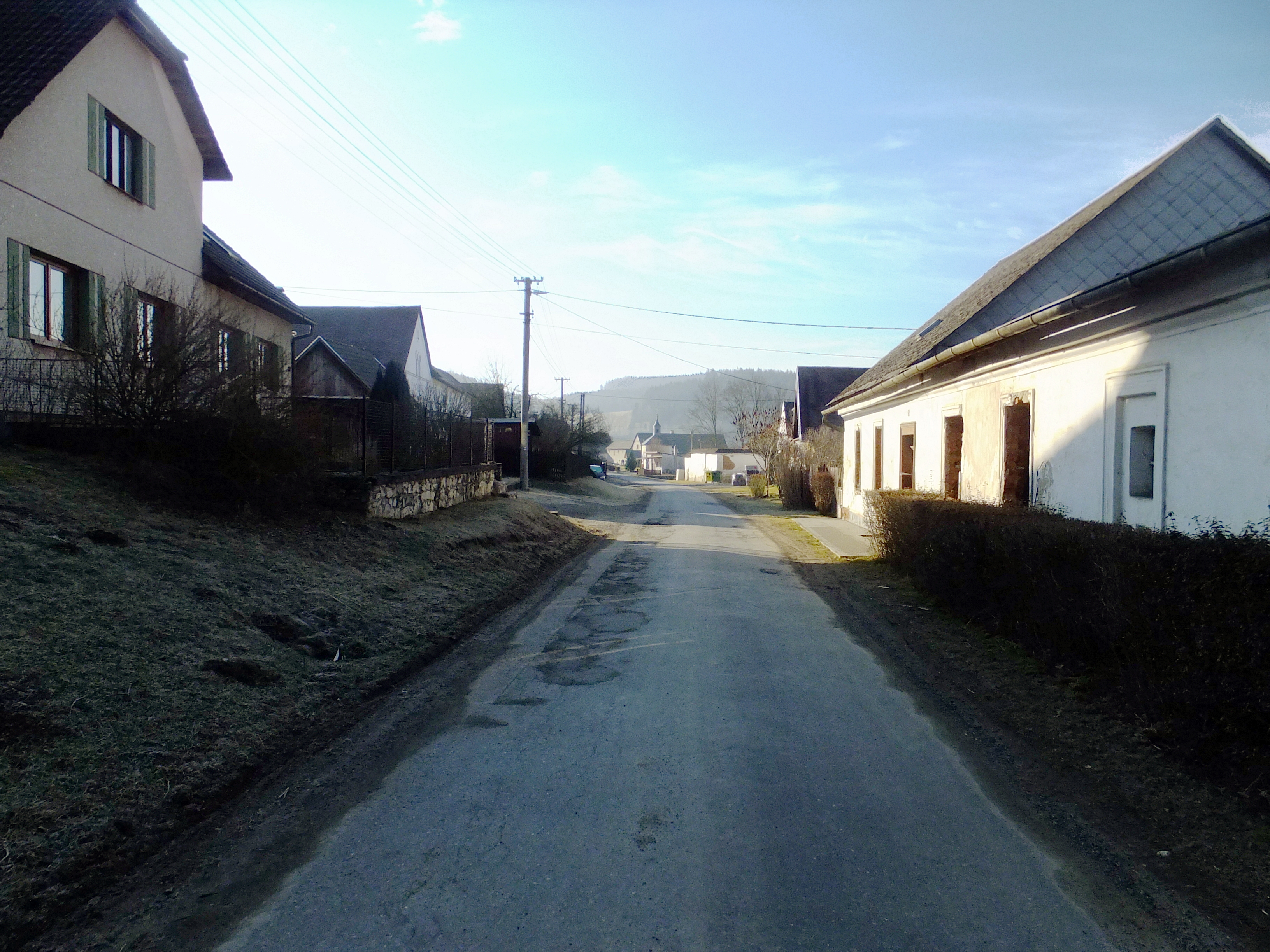 Sedliště (Jimramov) - the main street